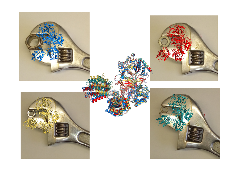 A picture I made to illustrate that UGGT can adapt to glycoproteins of different sizes like a wrench that adapts around nuts of different sizes.